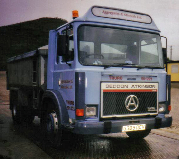 1990 Seddon Atkinson 2-11 (R17P18 38), with the intercooled Phaser 180Ti engine.